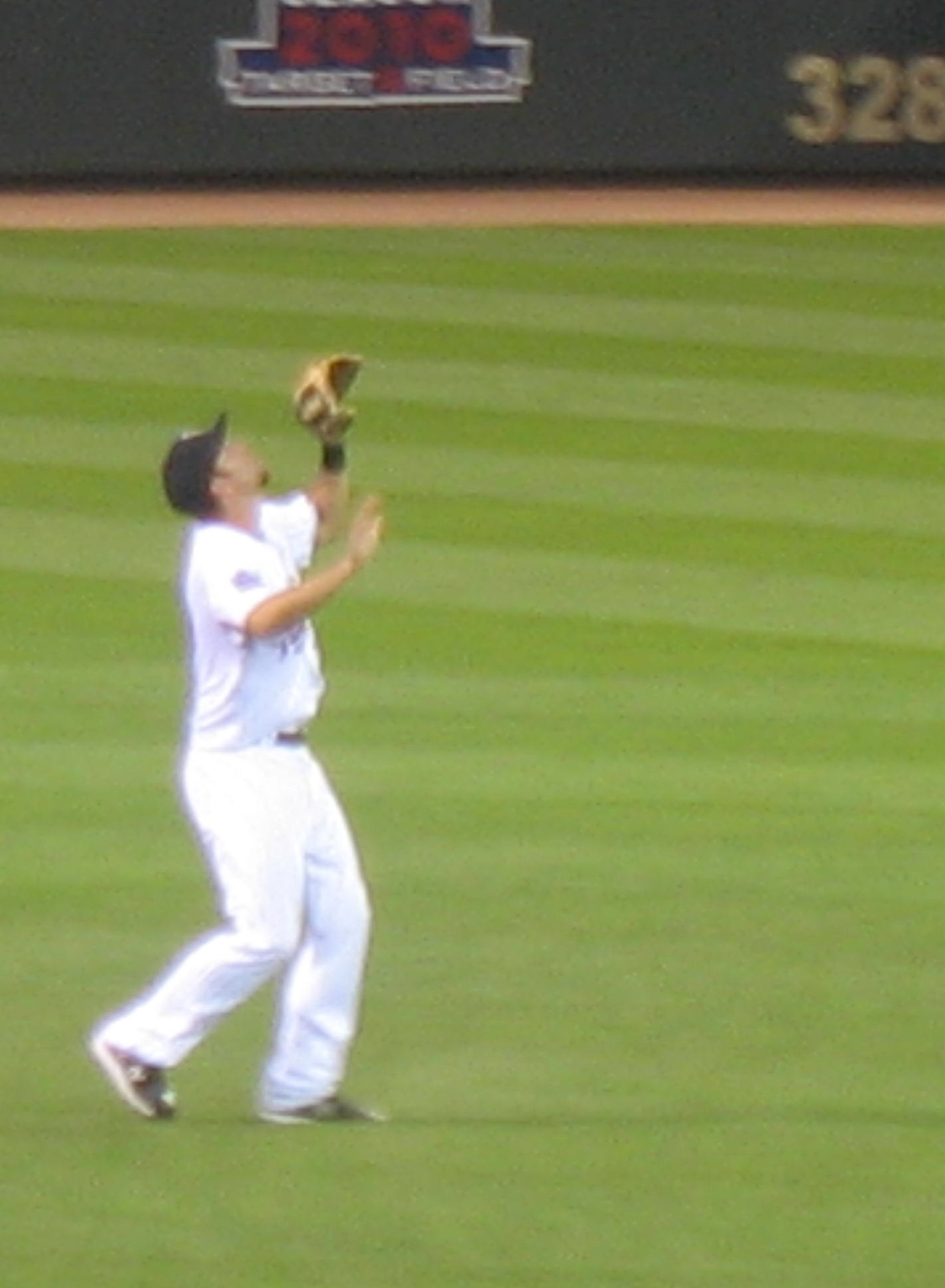 Jason Repko catching a fly ball.